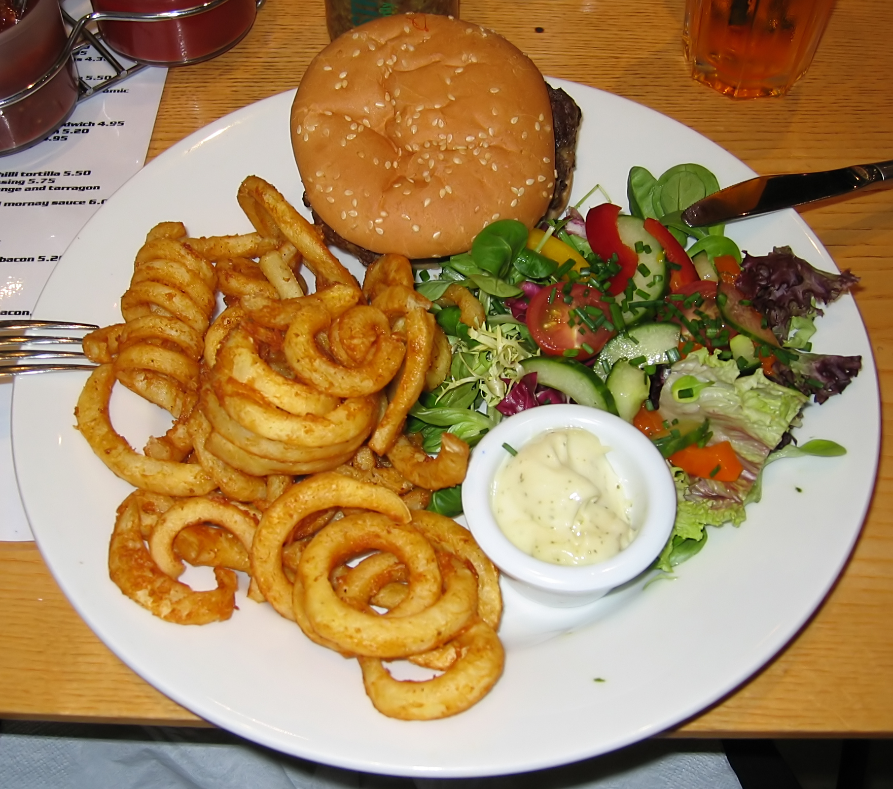 The Bar-91 Burger (with curly fries). If I die at 40 from a heart attack, it'll have been worth it.